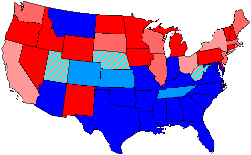 Summary of party control of U.S. house seats in the 64th United States Congress following election. Stripes indicate a tie between two or more parties. Legend: 80.1-100% Democratic seat majority 60.1-80% Democratic seat majority 60% or less Democratic seat plurality 60% or less Republican seat plurality 60.1-80% Republican seat majority 80.1-100% Republican seat majority